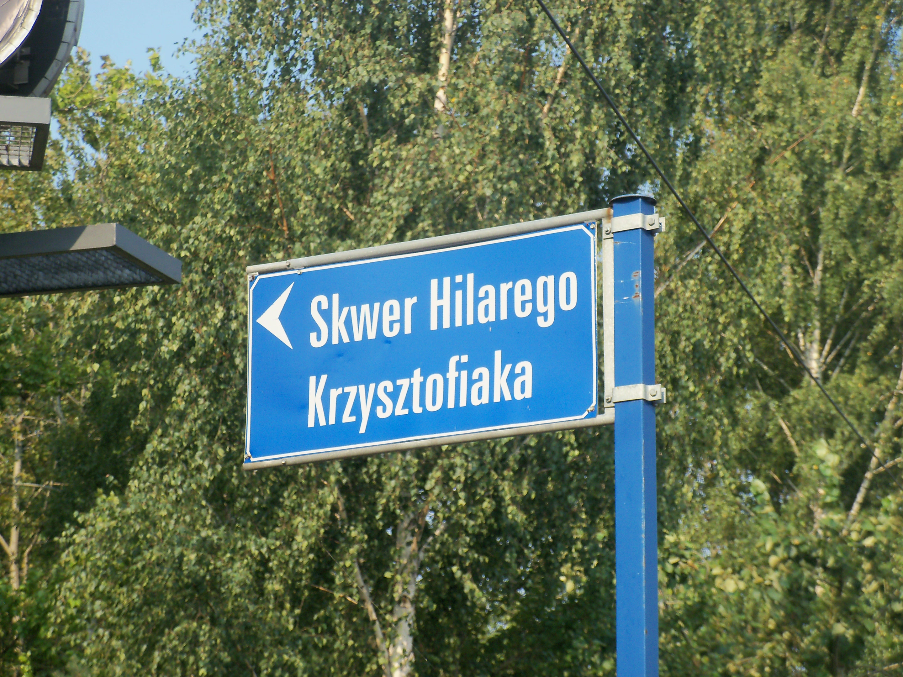 Krzysztofiaka Square in Katowice-Burowiec